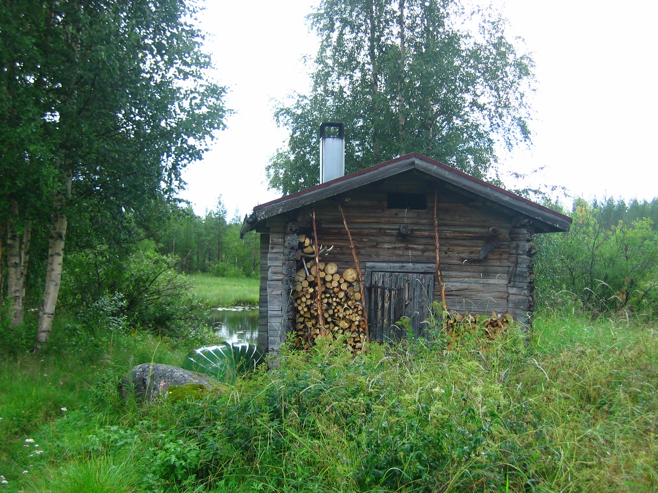 Sauna of Kapelo wilderness house at Sorsua creek in Utajärvi, Finland